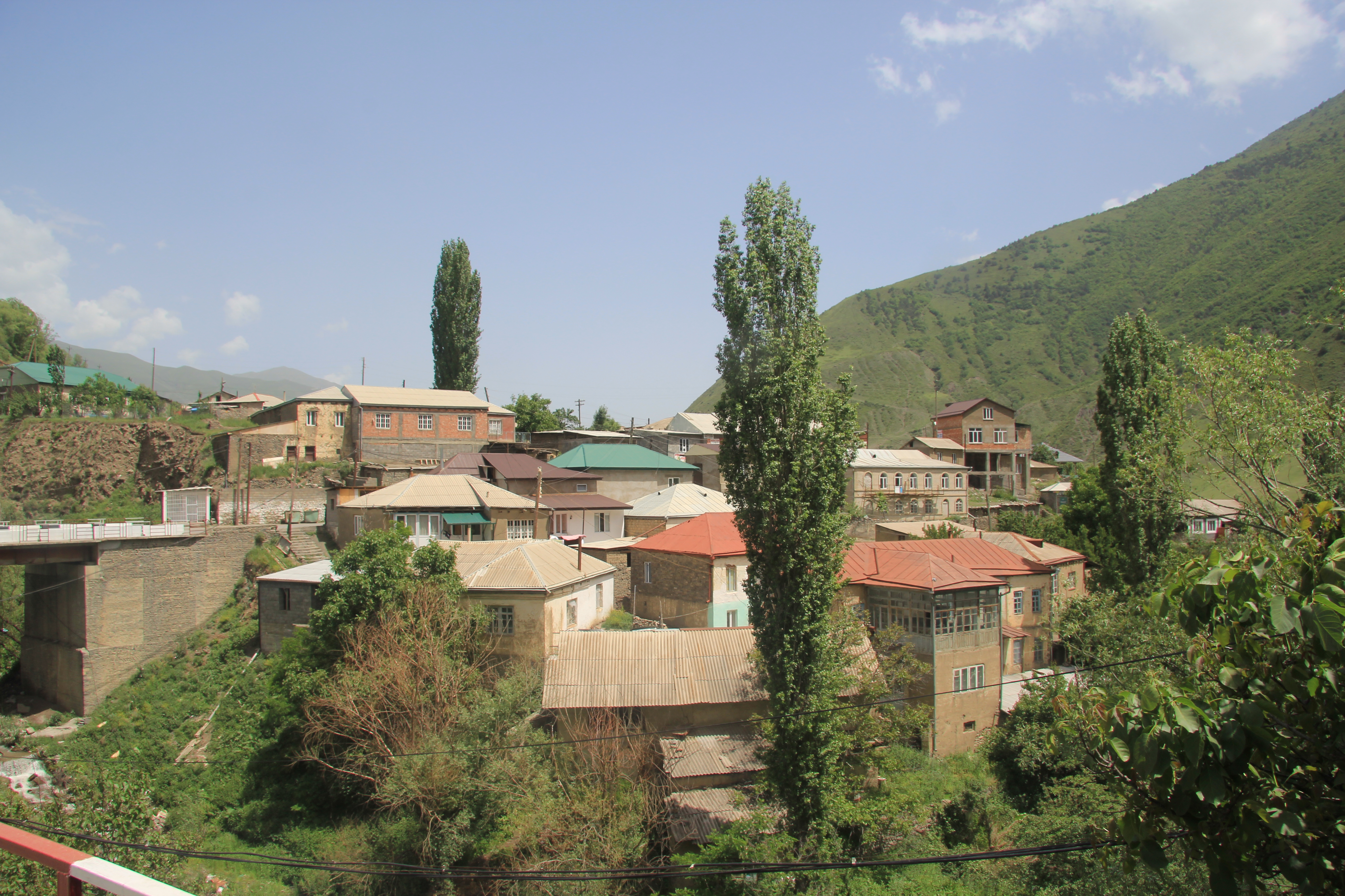 A historic quarter in a mountainous village Rutul in the Repuplic of Dagestan. Russia